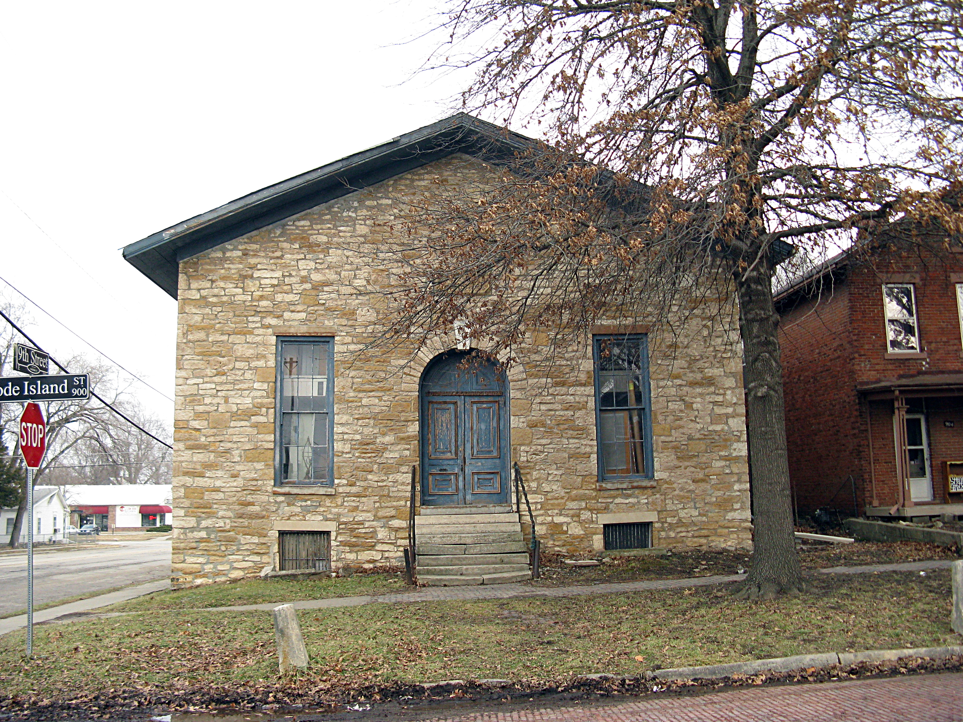 Lawrence, Kansas historic walking tour. This house is located in the North Rhode Island Street Historic Residential District, which is listed on the National Register of Historic Places.